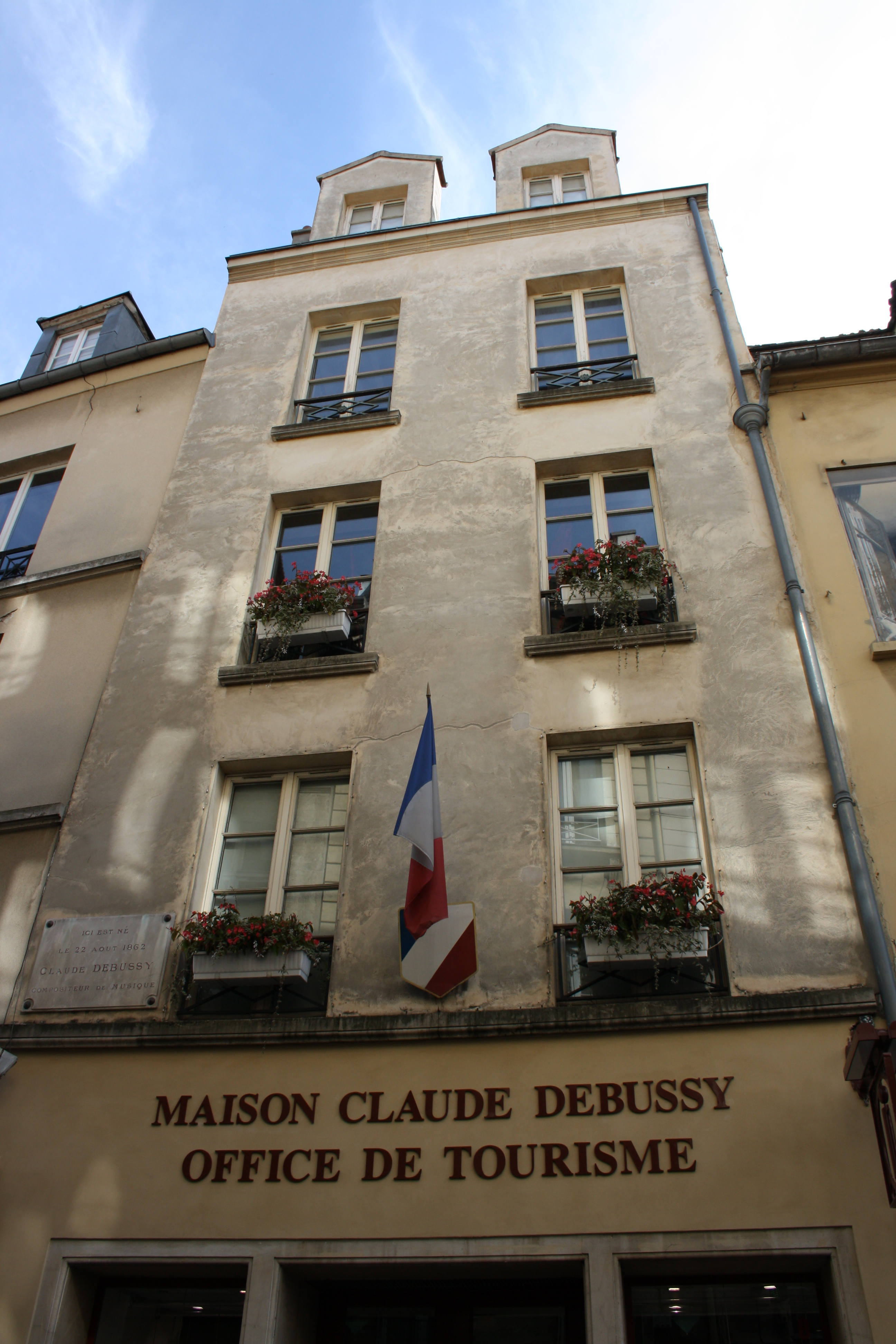 Formerly the house of french composer Claude Debussy now a tourism office and a small museum located 38 rue au Pain in Saint-Germain-en-Laye, France.